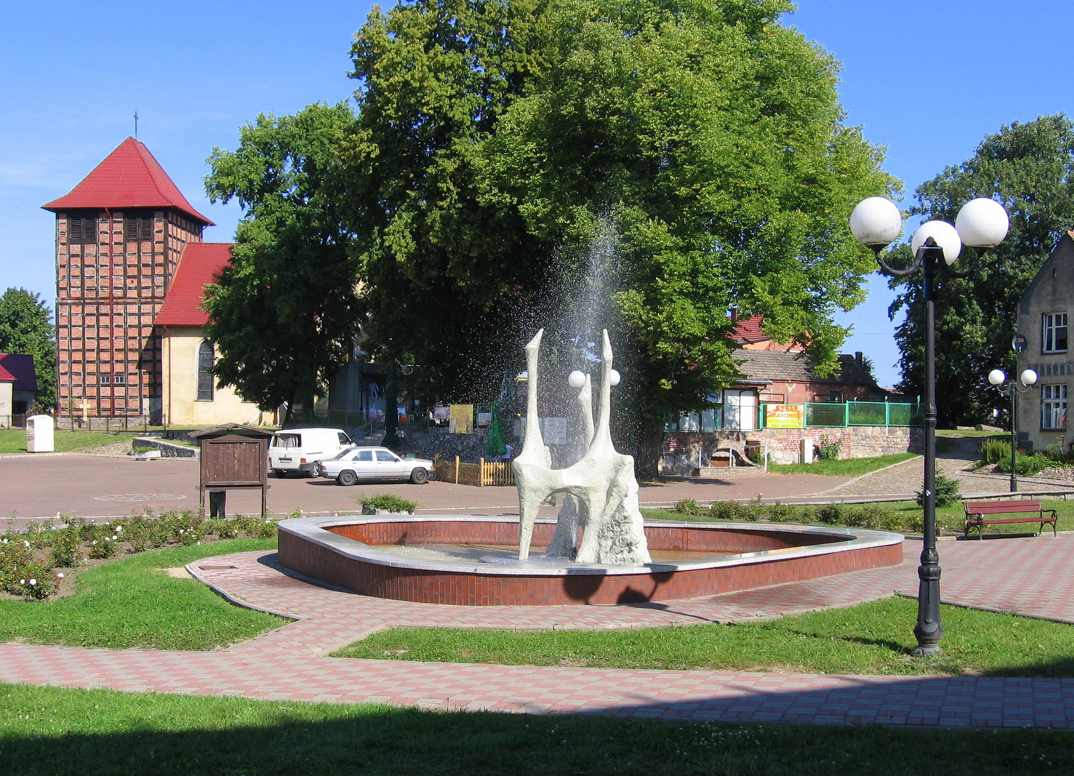 Fountain on Wolności Square in Drawno, Poland